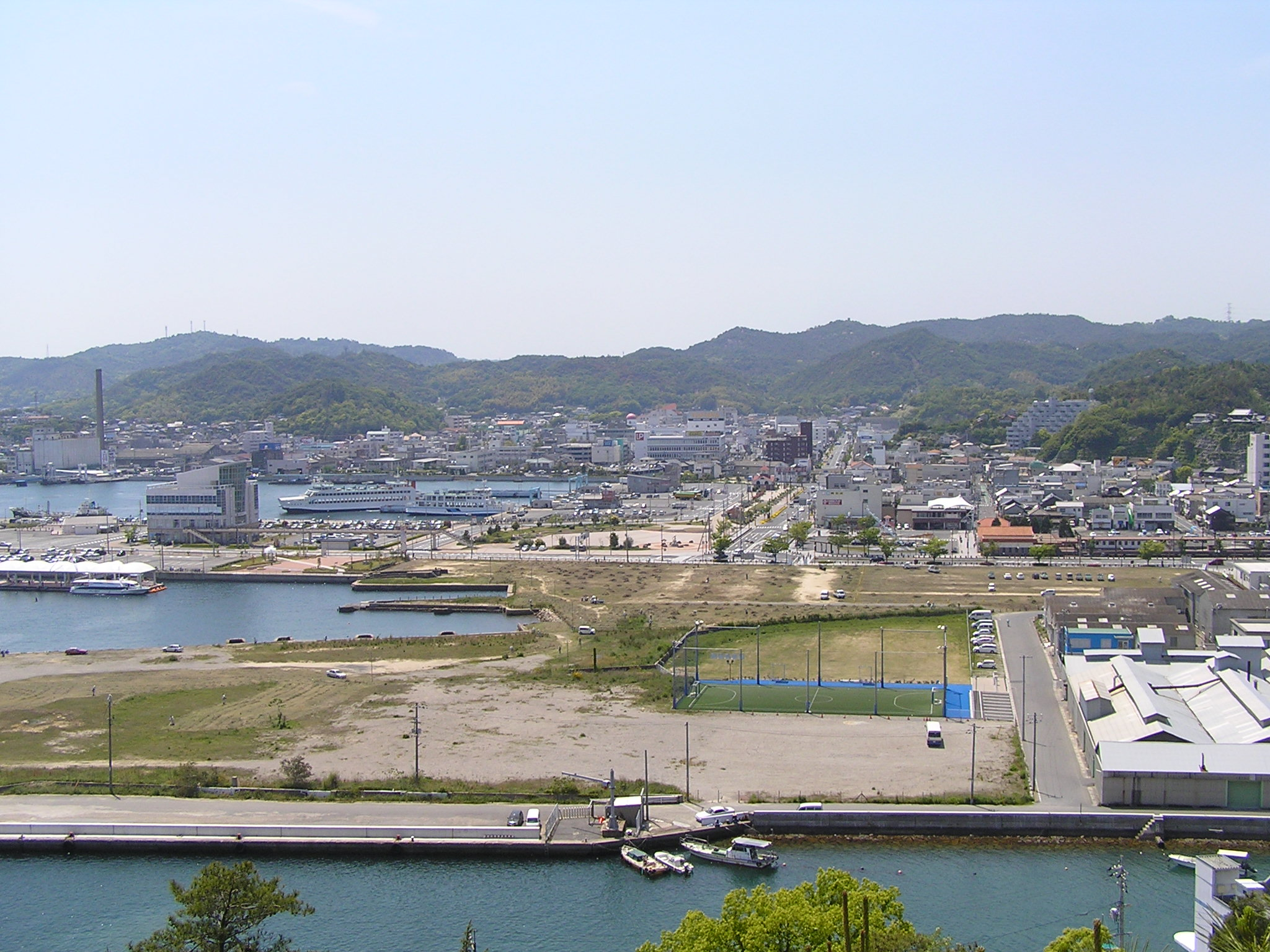 Uno Port is looked at east.